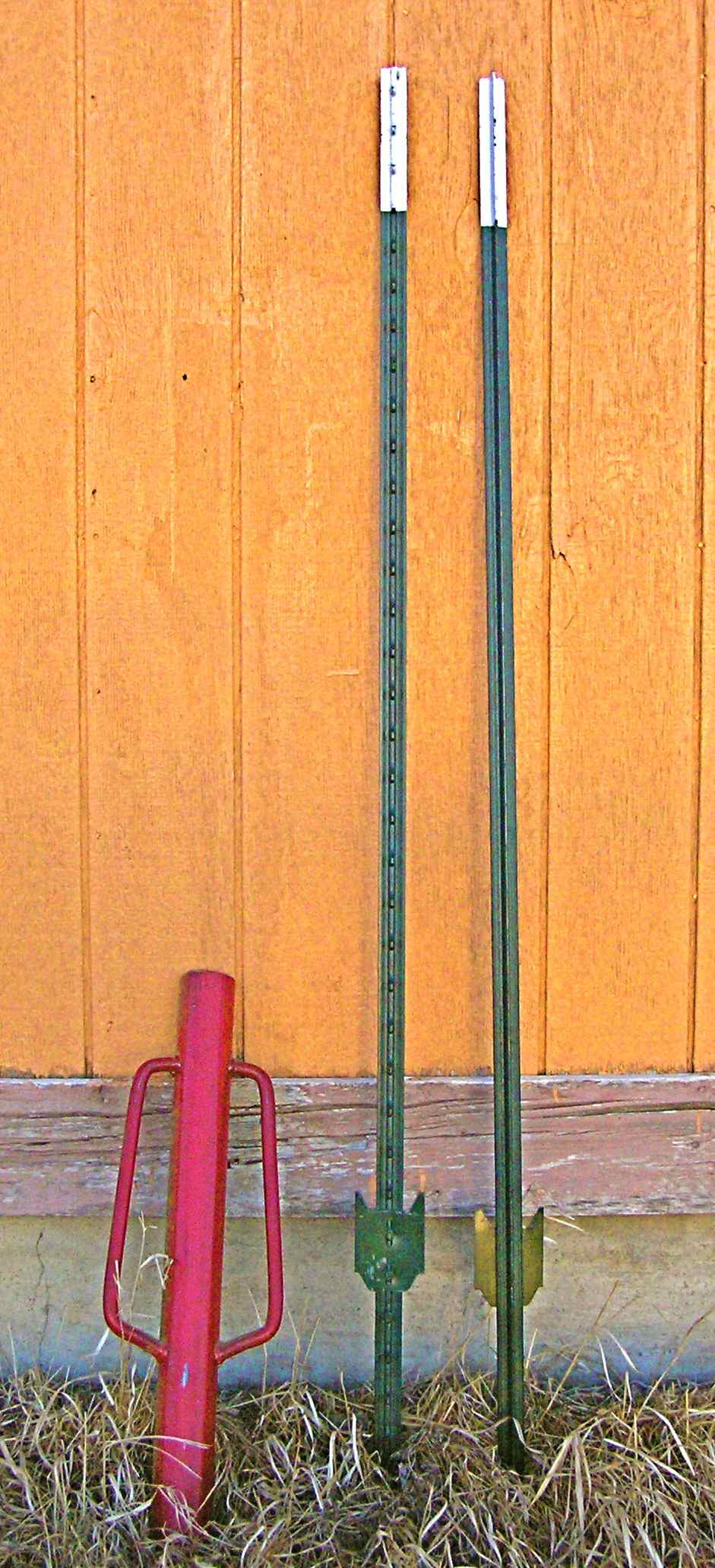 Two T-post and a red post pounder. Ground plate visible at bottom, posts are pounded into the ground so that ground plate is buried